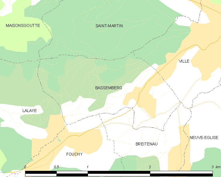 Map of French municipality